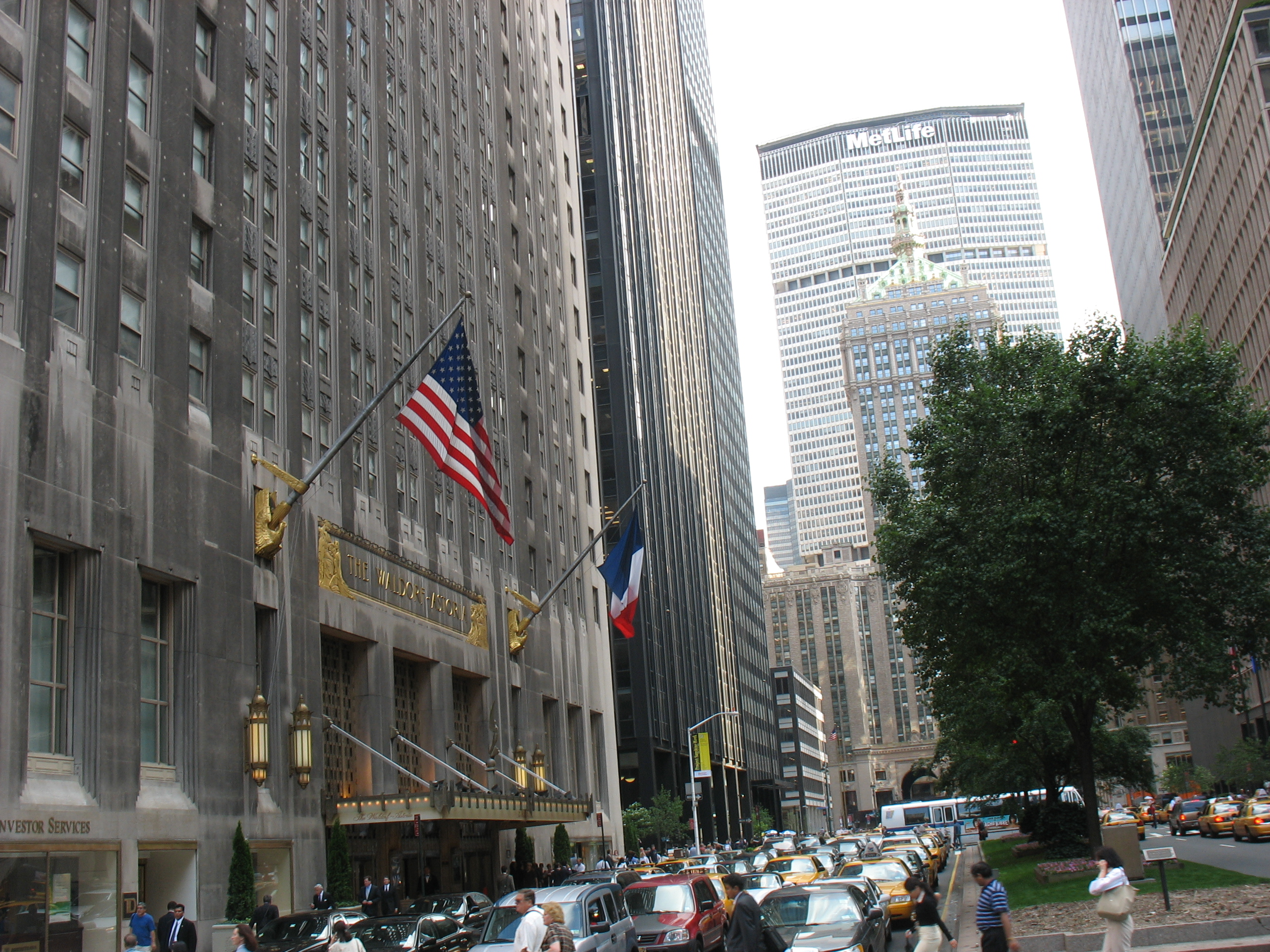 Photo of Waldorf-Astoria Hotel at 50th and Park in New York City. The Helmsley Building and MetLife Building straddle Park Avenue behind it. Photo taken by poster in June 2006.